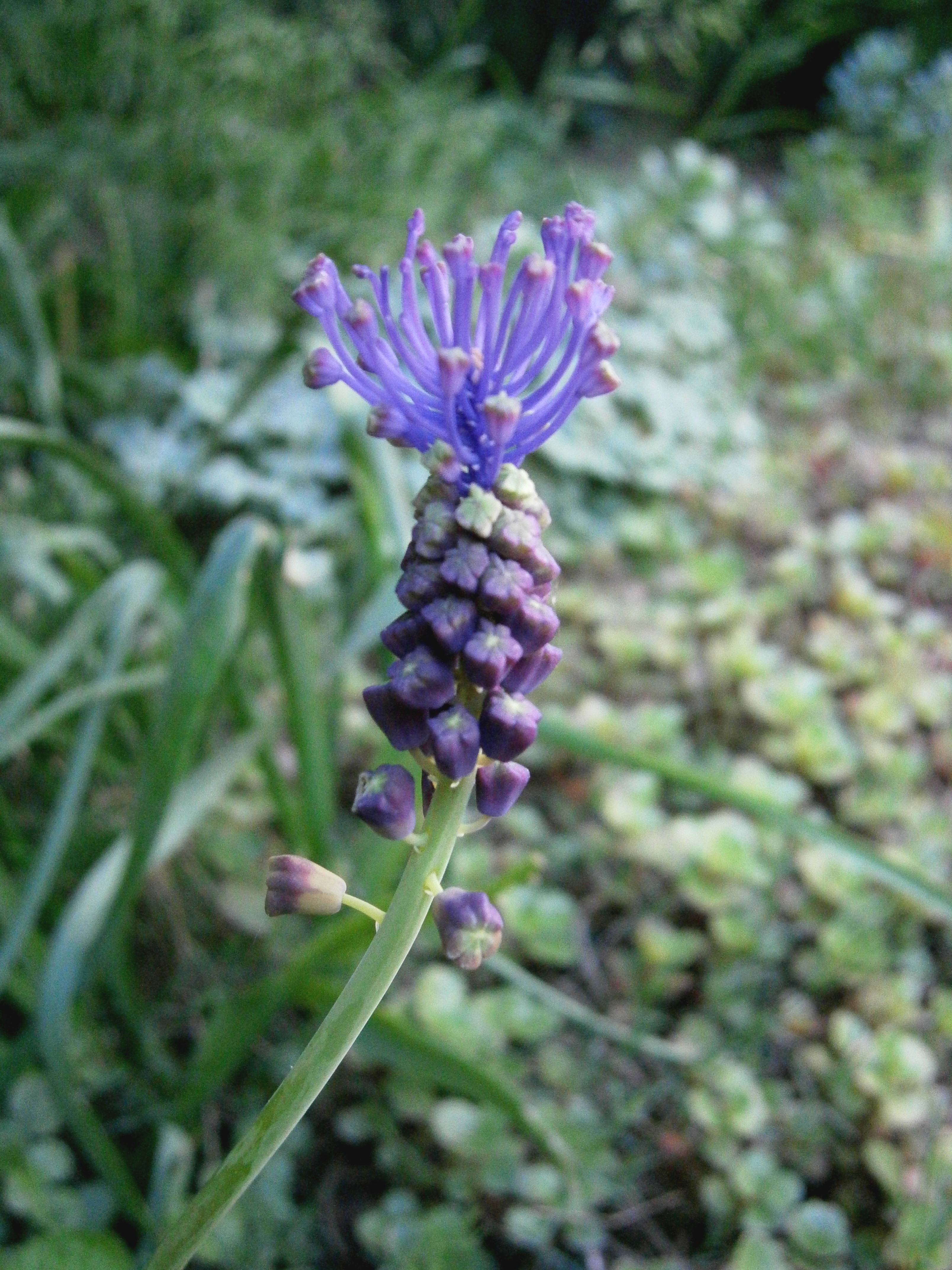 Leopoldia comosa flower buds